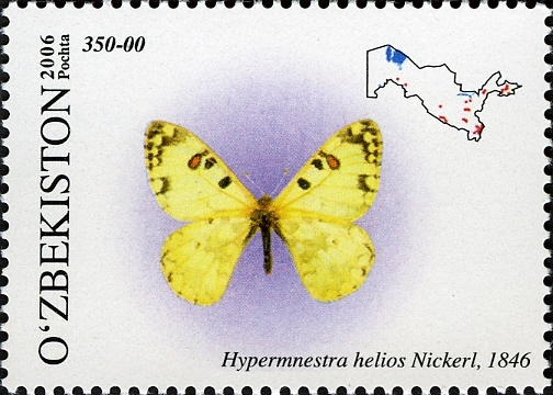 Stamps of Uzbekistan, 2006